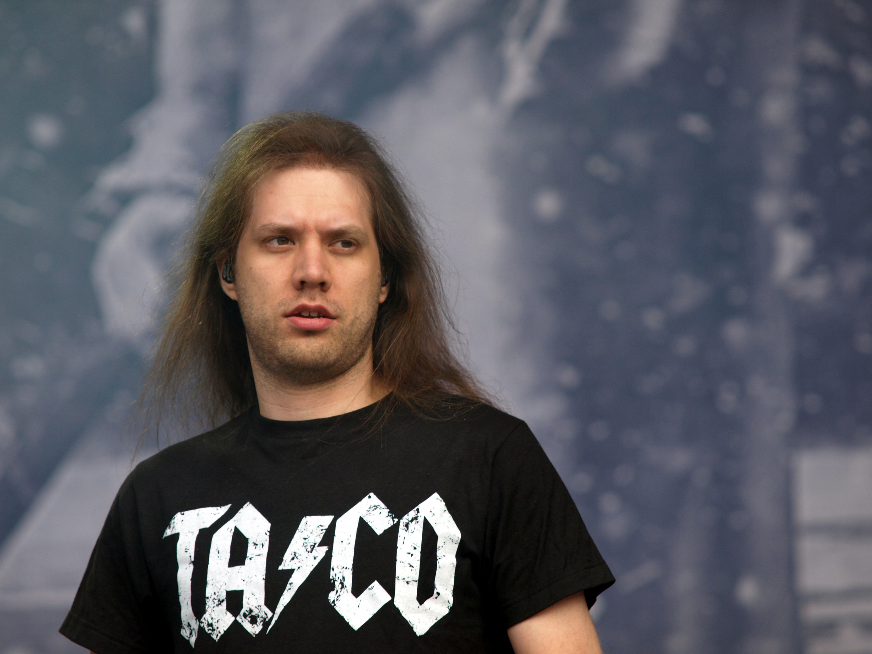 Finnish band Children of Bodom live at Provinssirock 2013